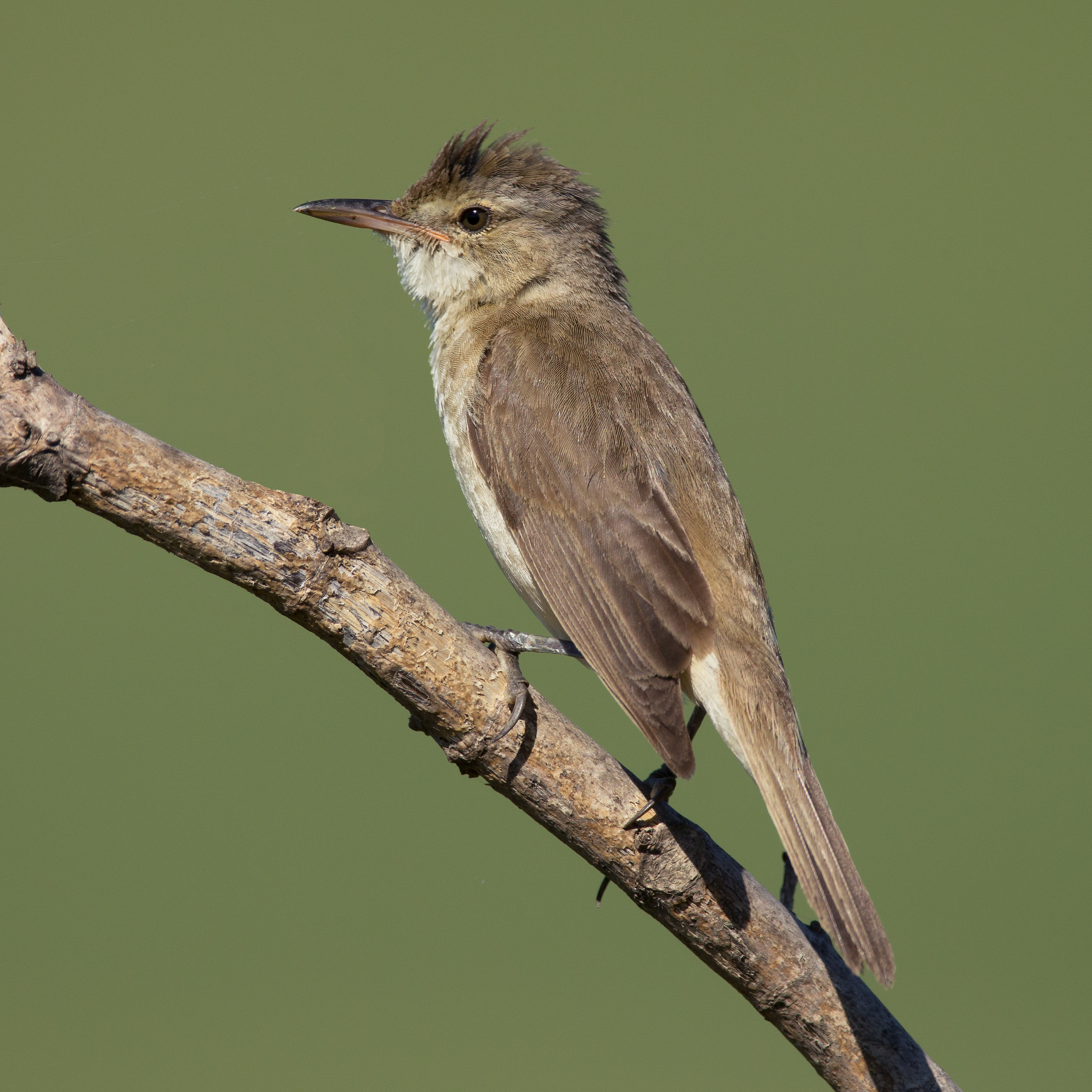 Australian Reed-Warbler (Acrocephalus australis), Bushell's Lagoon, New South Wales, Australia